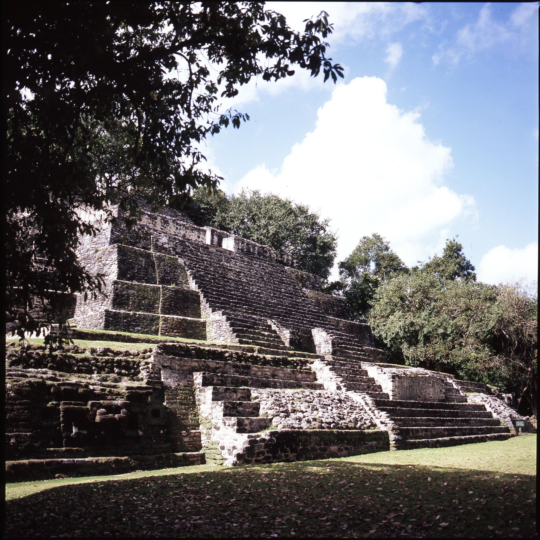 Temple of the jaguar, Lamanai, Belice